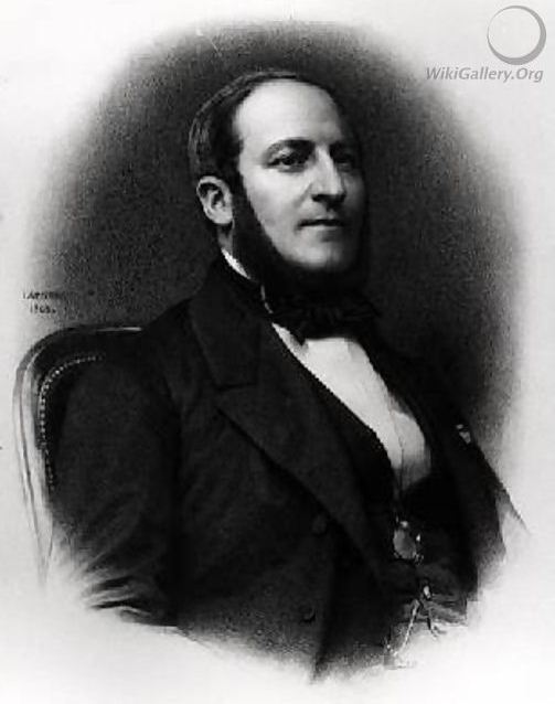 Portrait of Baron Georges Eugène Haussmann 1809-91 by Jean-Baptiste-Adolphe Lafosse